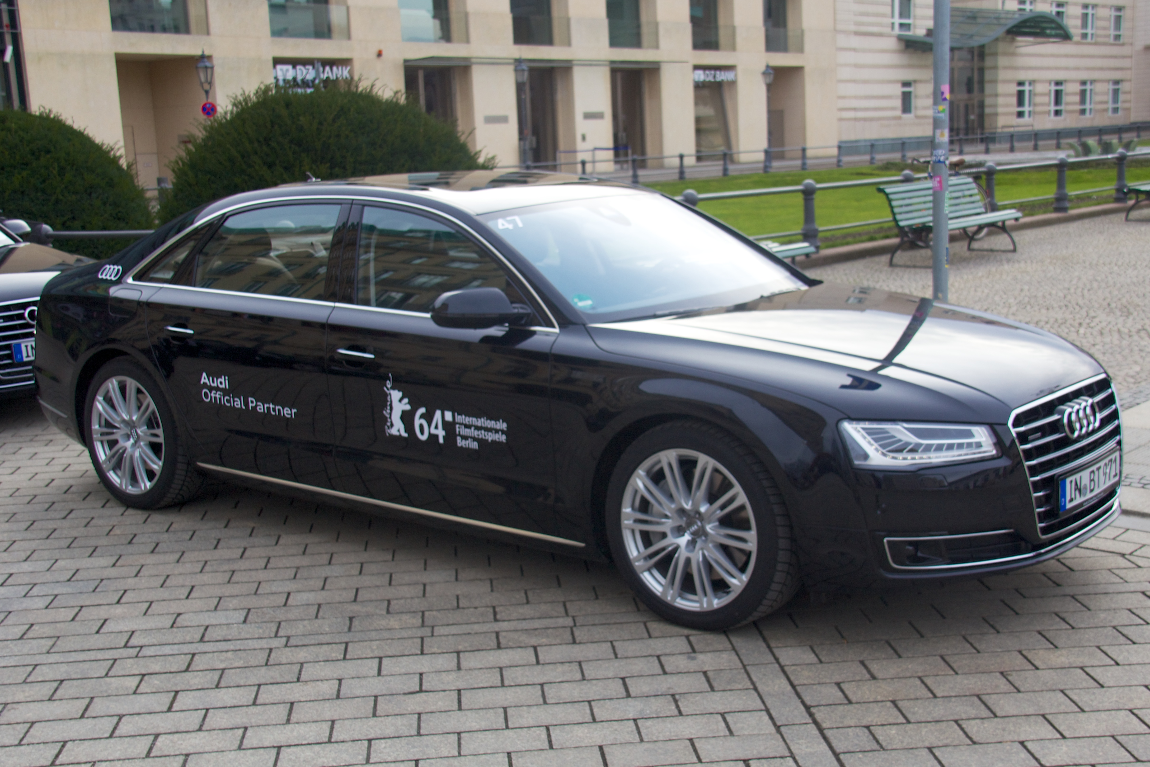 Audi A8 at the Internationale Filmfestspiele Berlin.